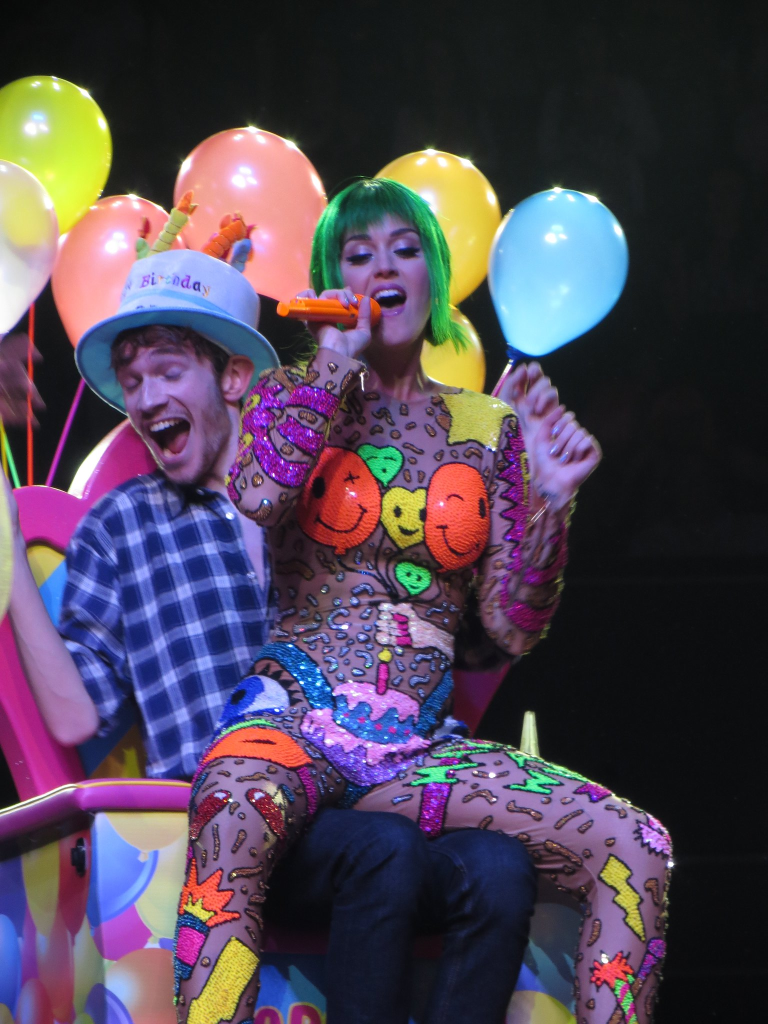 Katy Perry performing "Birthday", The Prismatic World Tour, Glasgow SSE Hydro 17 May 2014